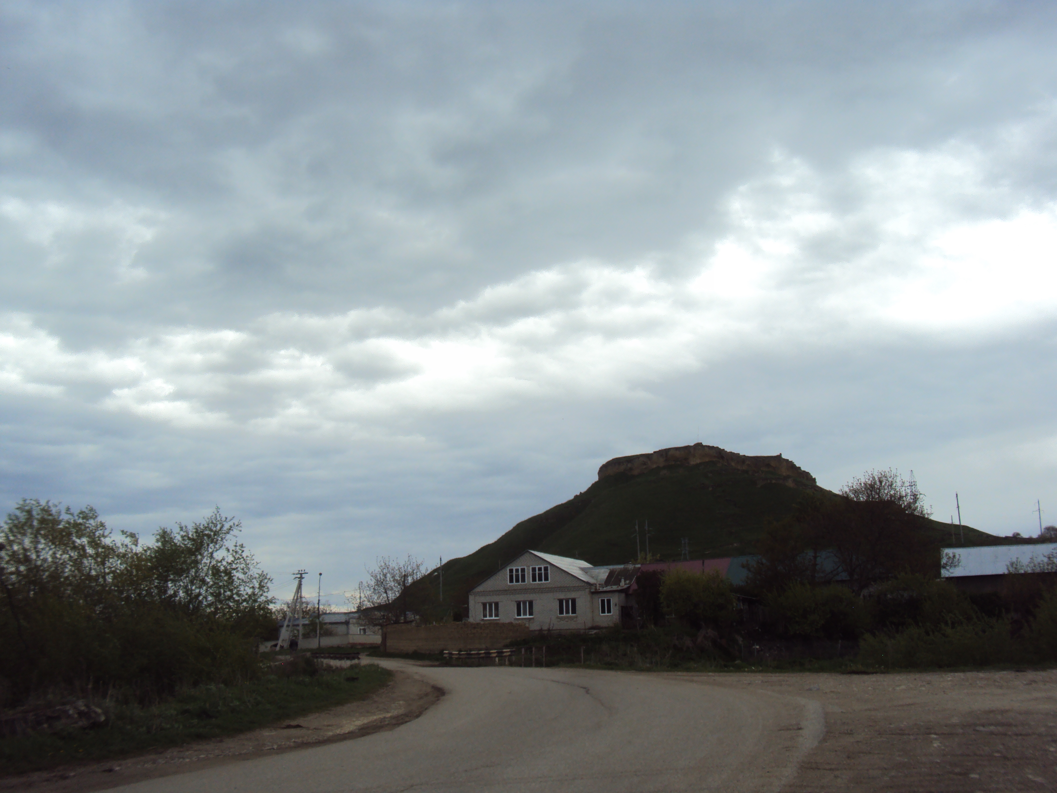 Rome mountain , malokaratchaevsky district. On top of this mountain in ancient times was a fortress of the Byzantines (rums). Over time, rum mountain was transformed into a rim - mount.